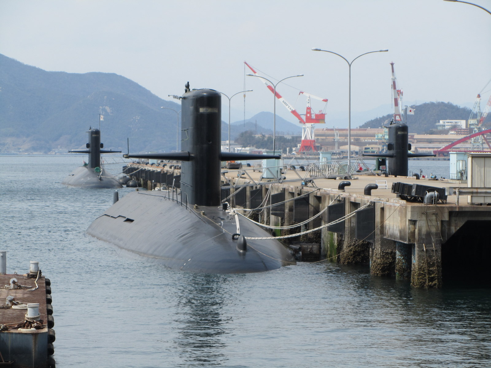 Decommissioned JS Hayashio (TSS-3606)[2] sits moored at S-berth, Kure, four days after her retirement. Two Harushio-class submarines are seen in the background. ↑ 除籍翌日の係留位置が外部サイト(a)で確認できる。また(b)によれば約1か月後の5月初旬の時点でも同位置に係留されていた。 ↑ The external link (a) shows she was there on 16 March 2011, and (b) indicates she remained at the same location at least until May 2011. Canon PowerShot SX210 IS